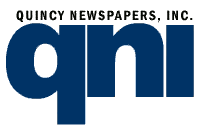 Logo of Quincy Newspapers. Consists of "QUINCY NEWSPAPERS, INC." and "qni" in a sans-serif font.